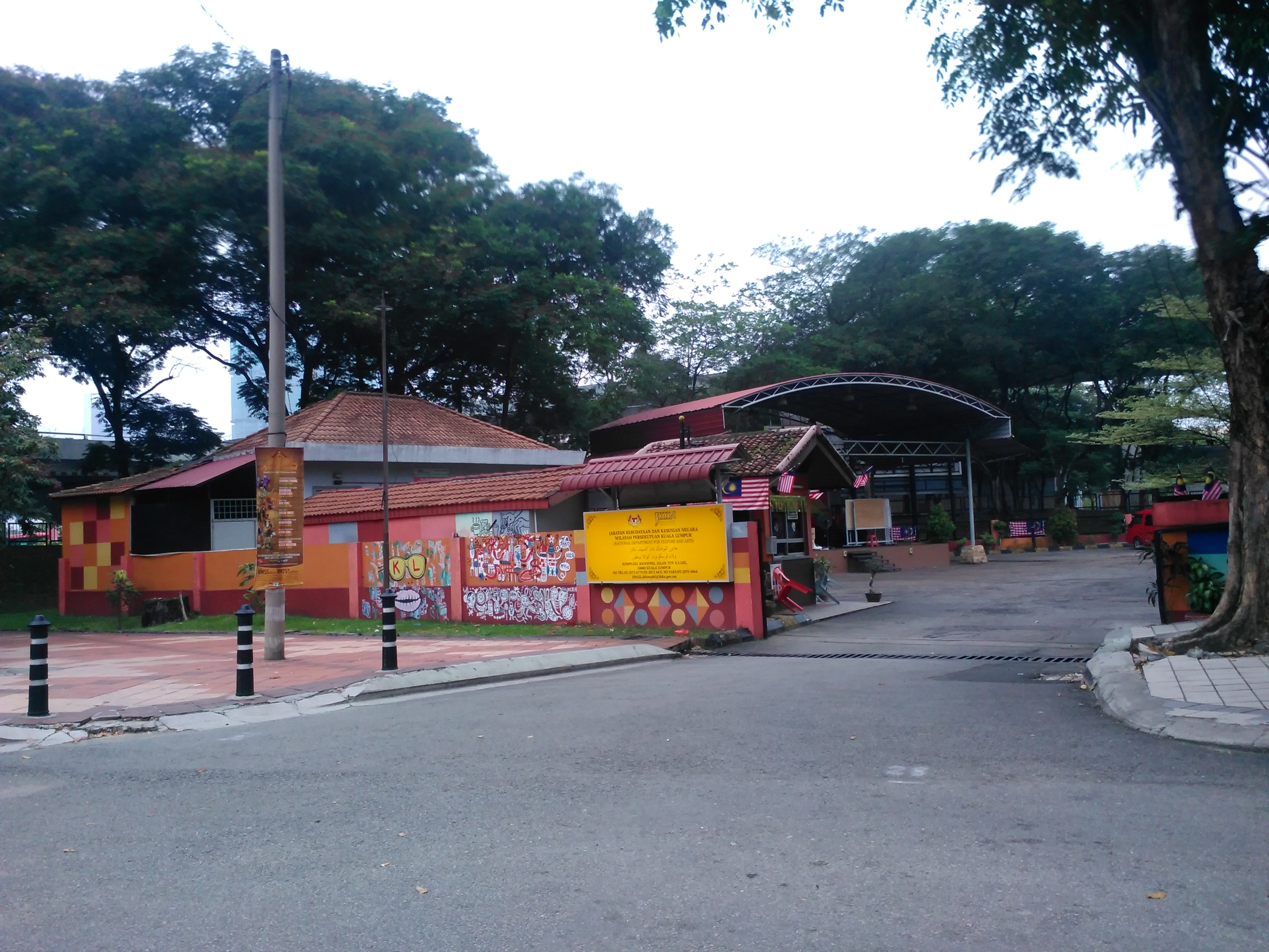 National Department For Culture And Arts Kuala Lumpur state office, Kompleks JKKNWPKL, Jalan Tun H.S Lee, 50000 KUALA LUMPUR